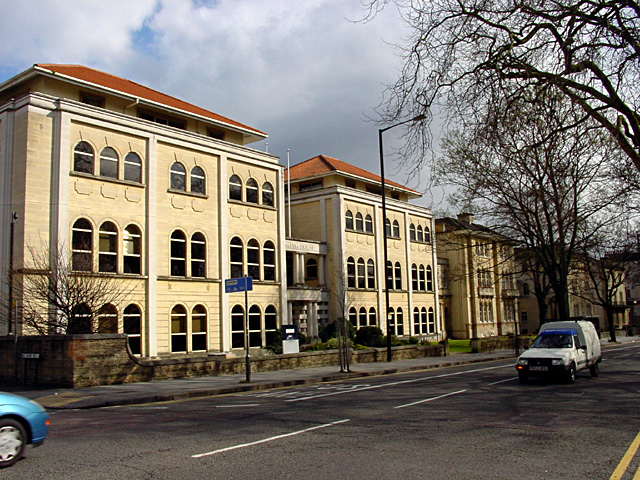 BBC Bristol TV Studios, Whiteladies Road. The BBC Bristol TV studios, on Whiteladies Road, these buildings were built in the 1980's.